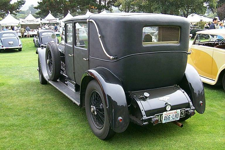 1927 Bentley 6½-litre H J Mulliner Limousine Chassis TW2724 Engine TW2723 Reg MO 9383